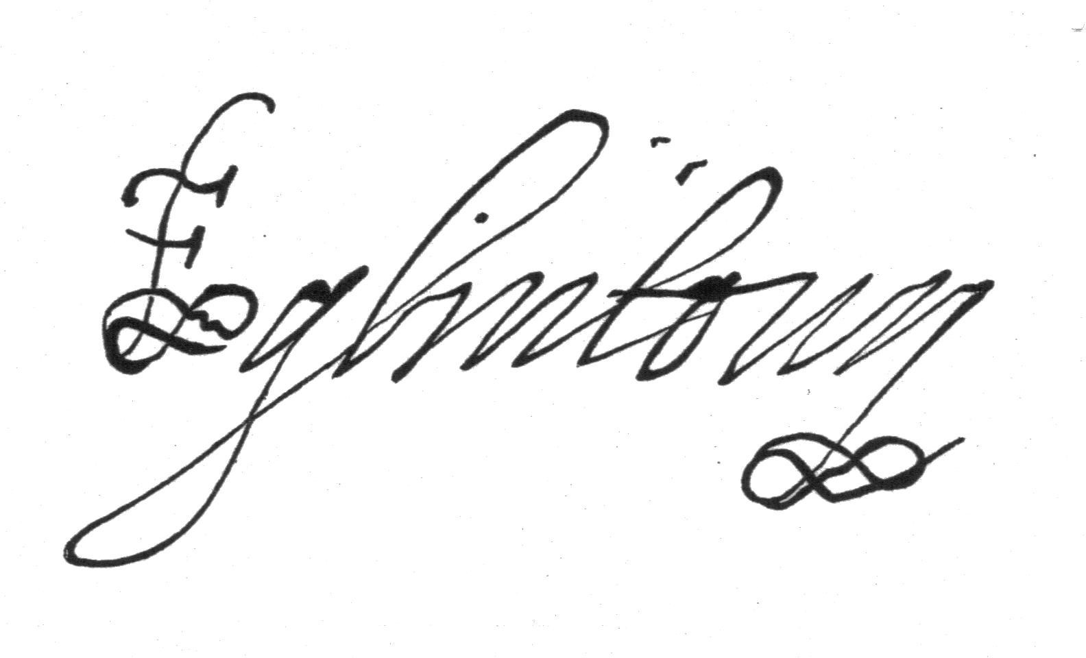 The Signature of the Earl of Eglintoun, a Montgomerie - 1640s